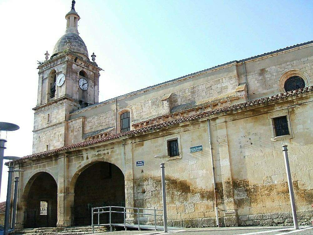 Iglesia de N. S. de la Asunción, Peñacerrada (Álava)